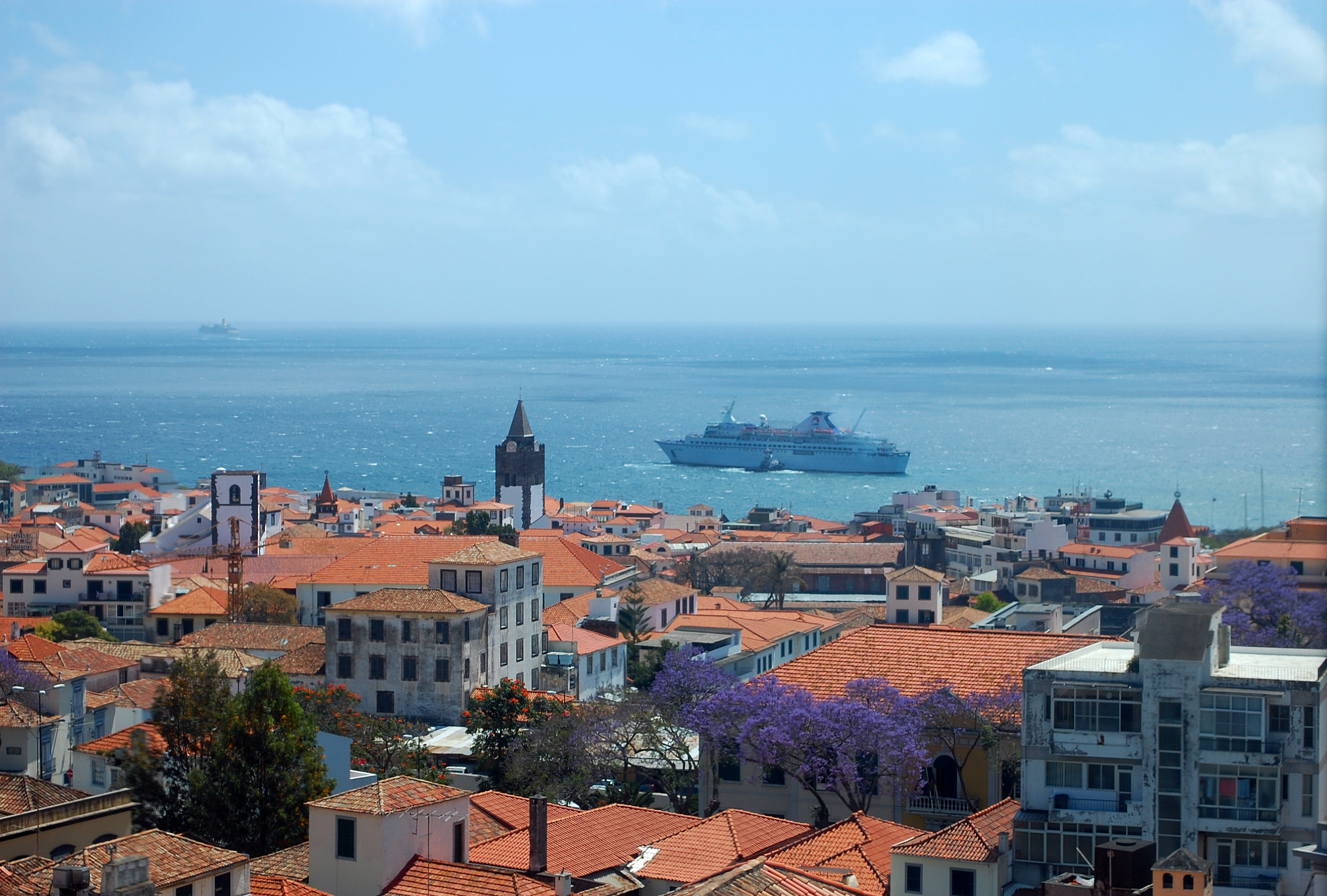 It was quite windy that day, and the cruise liners were being brought in and out of harbor by tugs. Funchal.